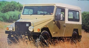 UMM Cournil 1983